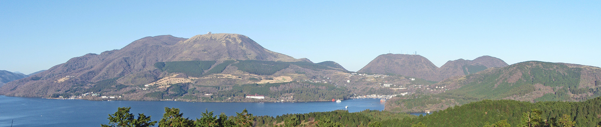 Central cones of Hakone volcano's and Lake ashi as seen from south in Kanagawa Prefecture, Japan.